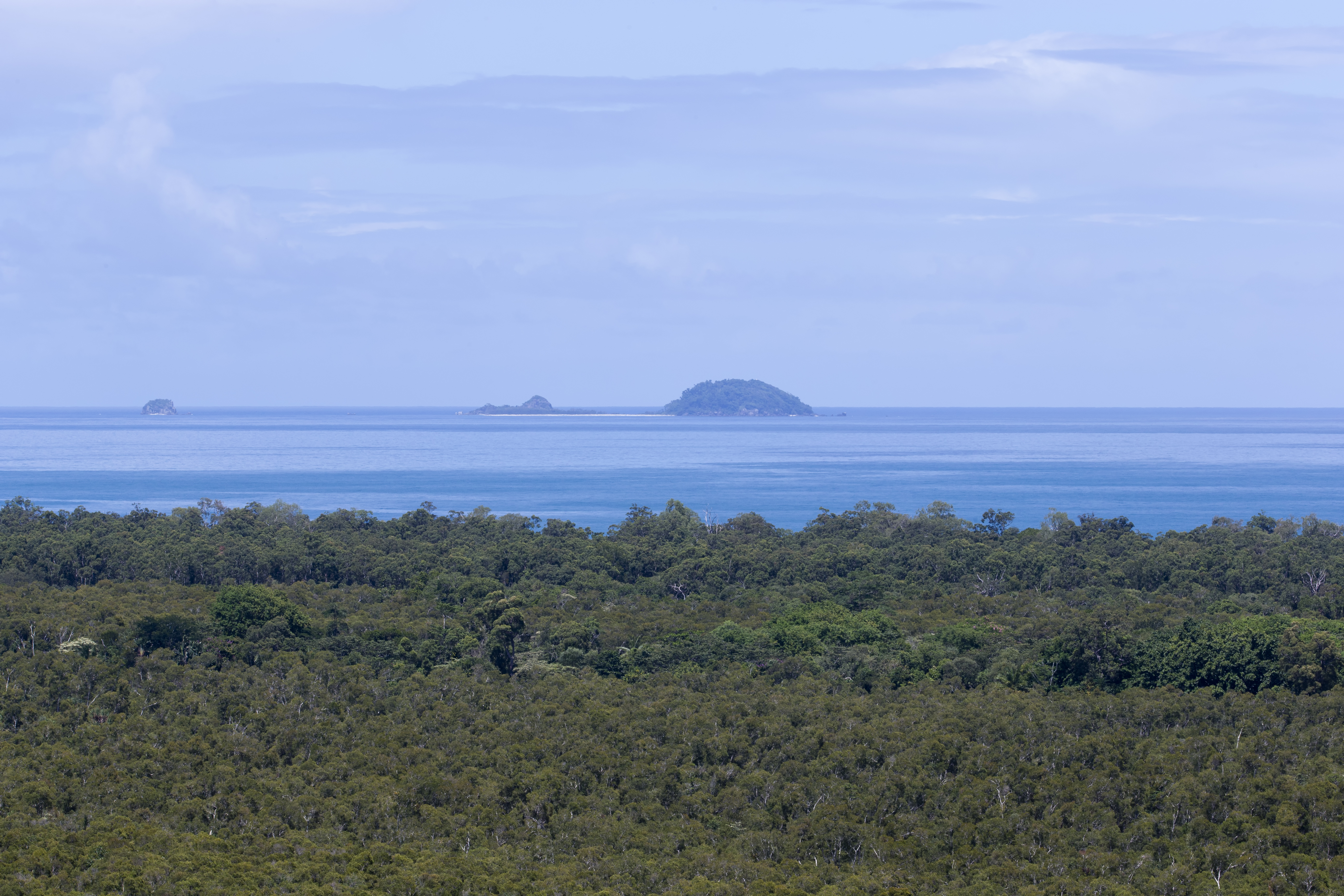 The islands off in the distance, taken from the Northernmost hill on Wyvuri Station, Bramston Beach North Queensland